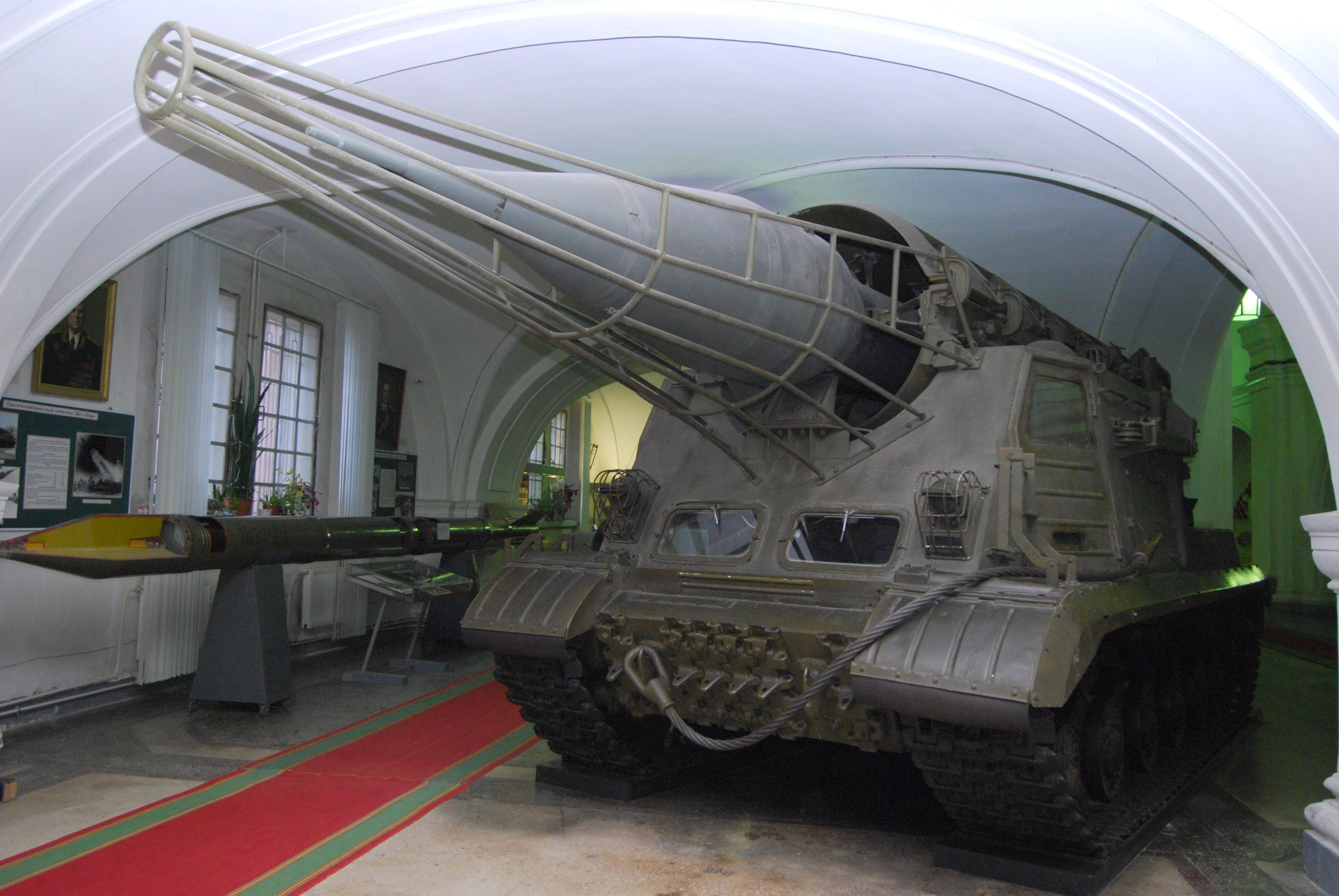 2P4 Transporter-Erector-Launcher with 3R2 missile of 2K4 missile complex «Filin» in Saint-Petersburg Artillery museum